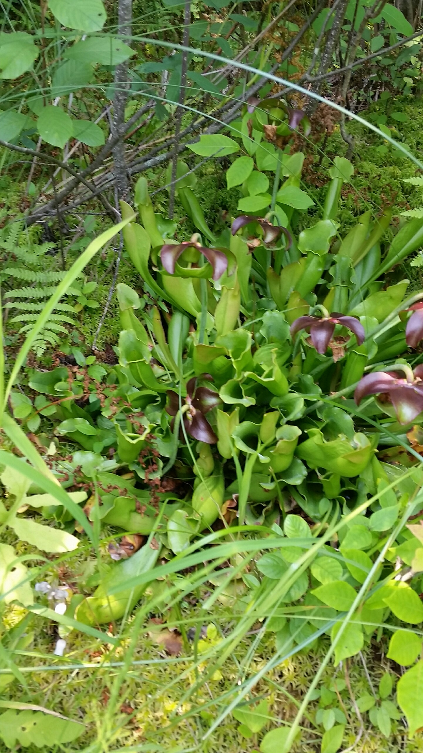 Sarracenia pitchers (summer coloration) present in the bog showing the purple sepals after the petals have dropped.